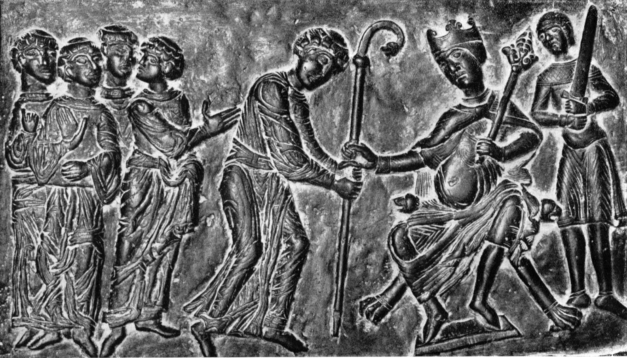 Gniezno Cathedral door detail